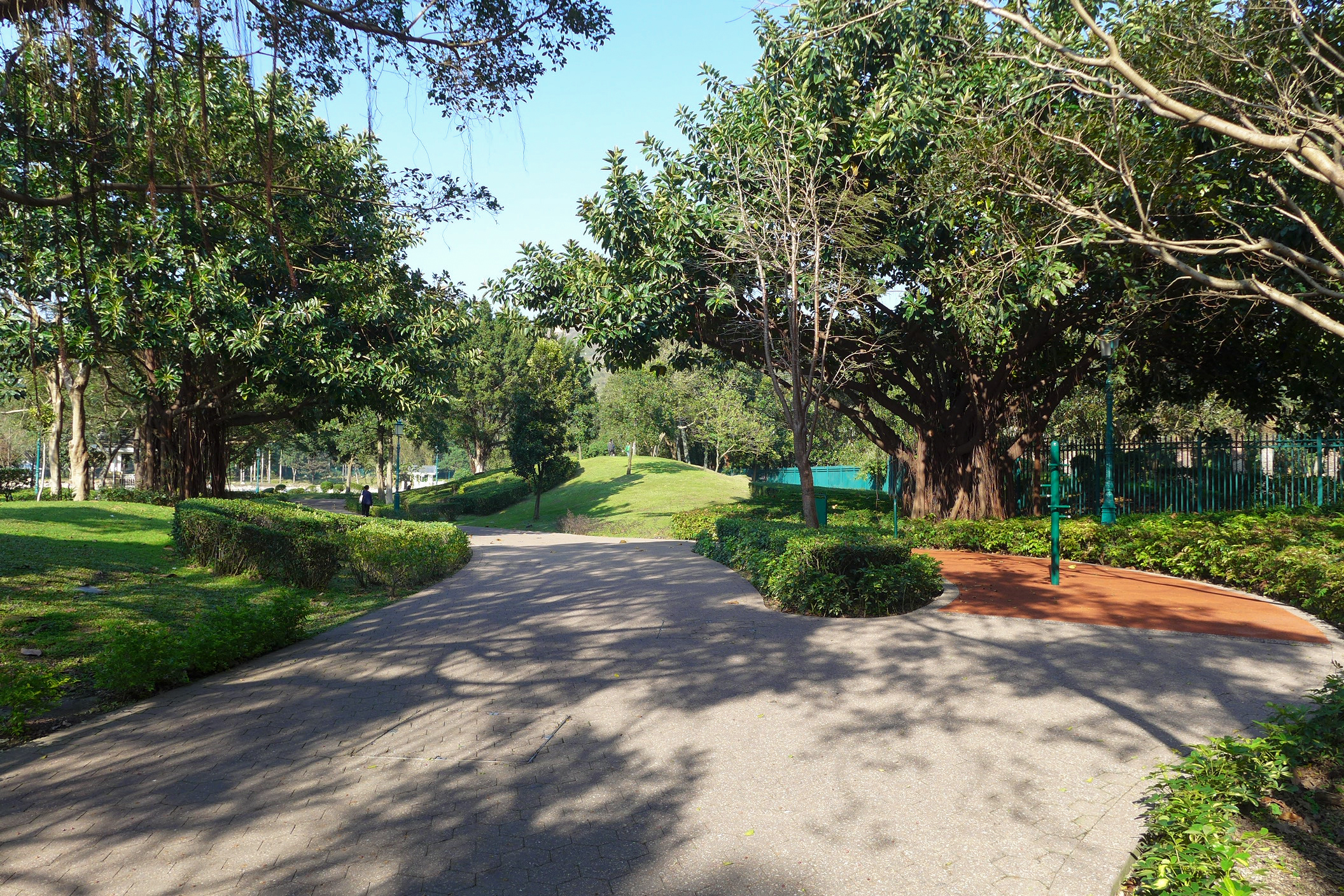 Inspiration Lake Recreation Centre